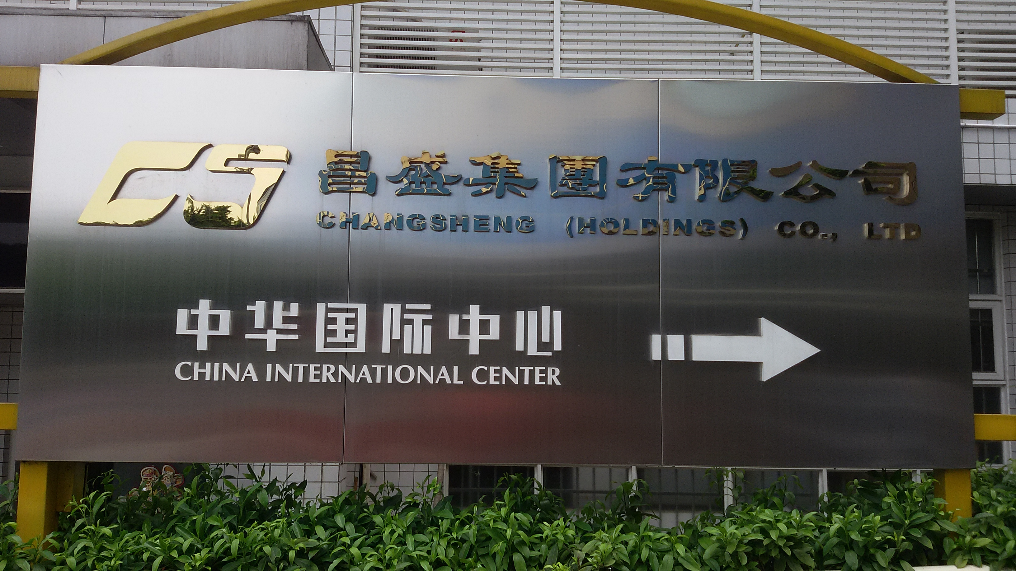 Direction Board for China International Center